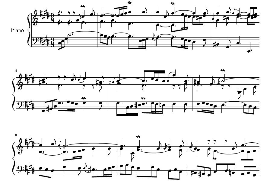 The first couple bars of prelude.